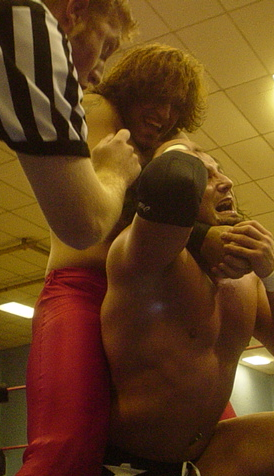 An image of professional wrestlers Snoty Dudley and Bobby Fish in September 2005.